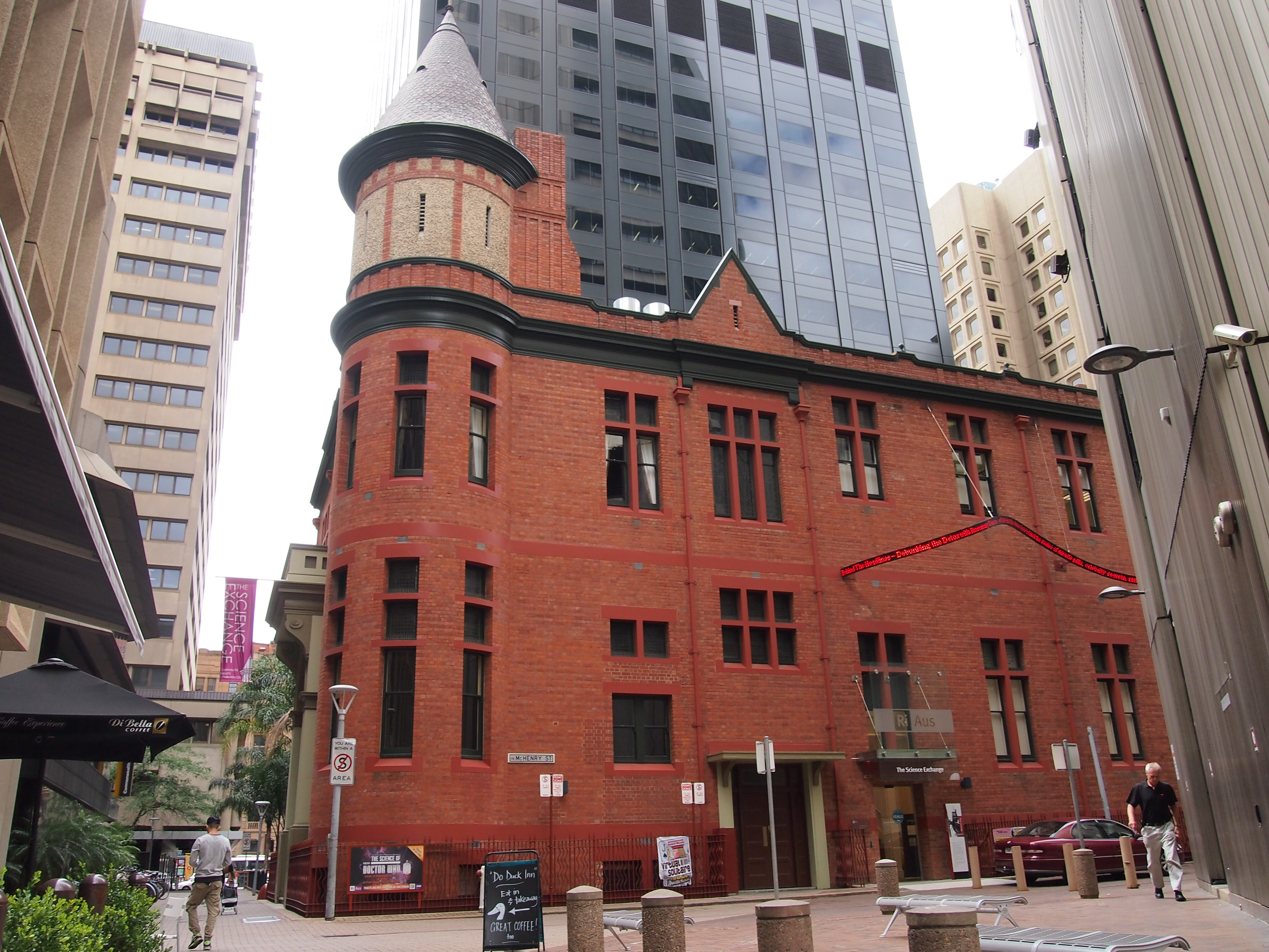 The Royal Institution of Australia is housed in the historic Adelaide Stock Exchange Building, located between Pirie and Grenfell Streets Original filename = P2211089.JPG